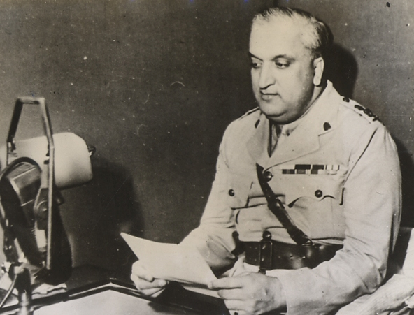 The last Maharaja of Kashmir, Hari Singh (r.1925-47), in a photo from 1943.